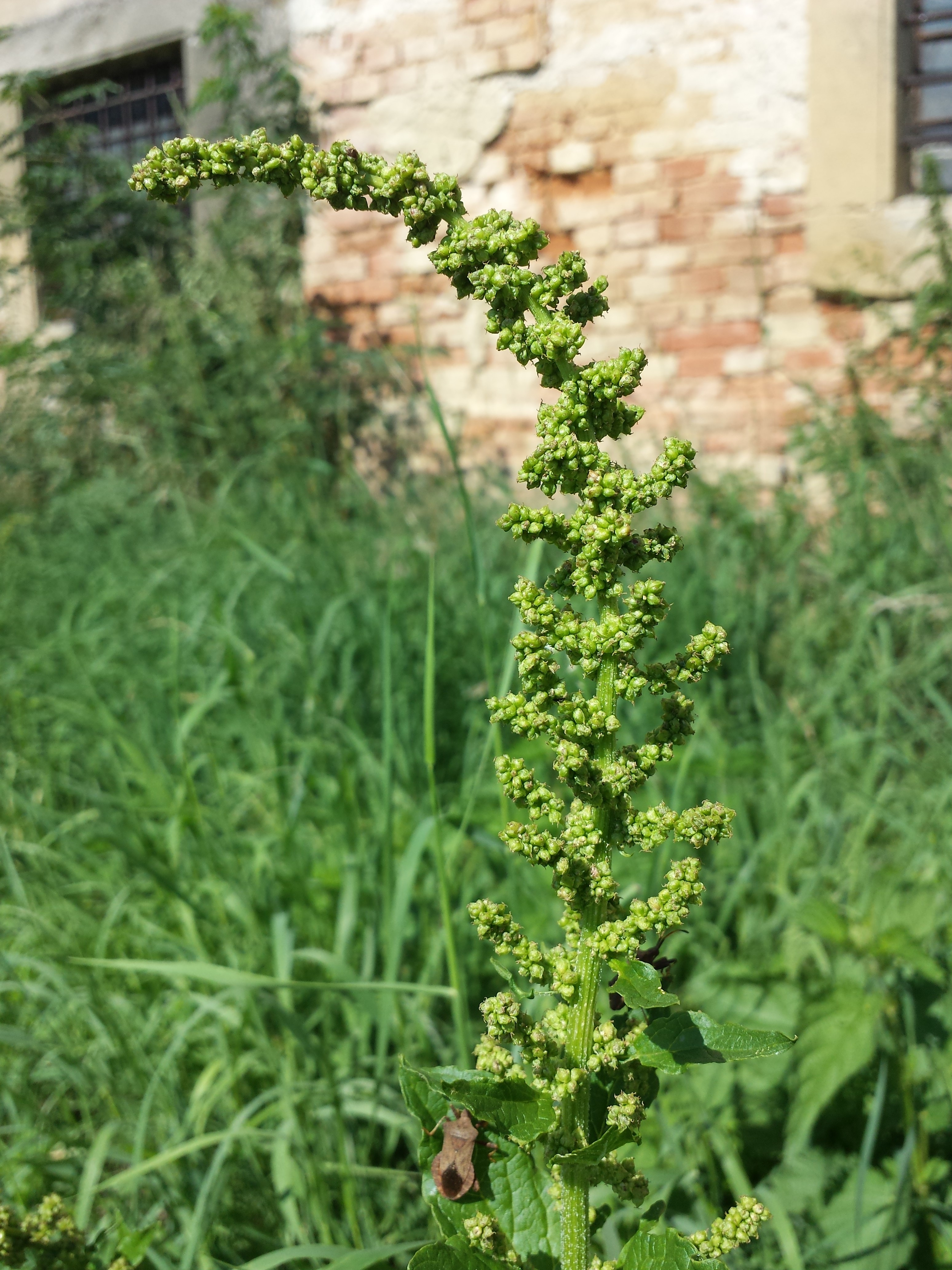 Inflorescence Taxonym: Chenopodium bonus-henricus ss Fischer et al. EfÖLS 2008 ISBN 978-3-85474-187-9 Location: grain storage building next to Ernstbrunn castle, district Korneuburg, Lower Austria - ca. 370 m a.s.l. Habitat: meadows